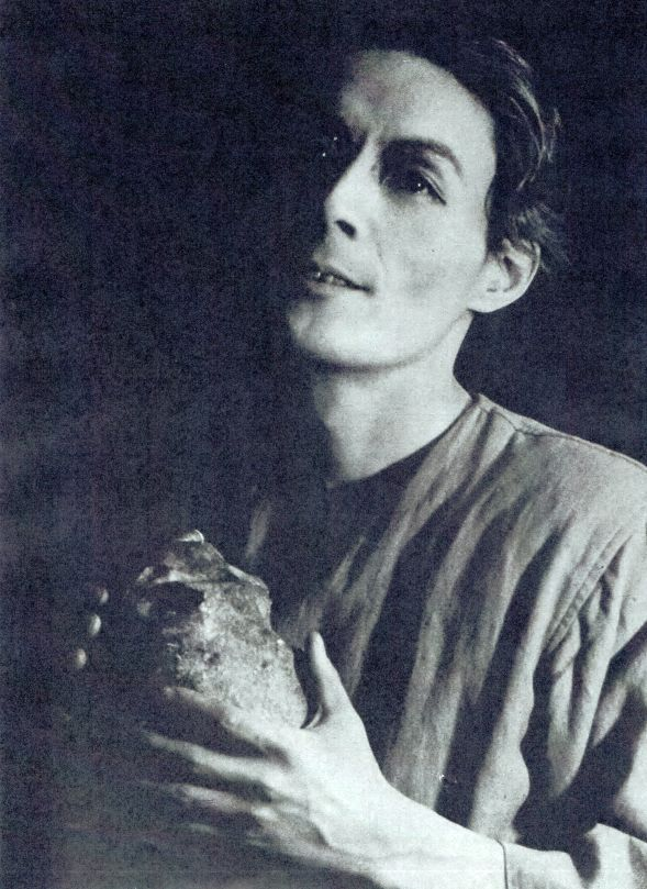 Hiroshi Akutagawa